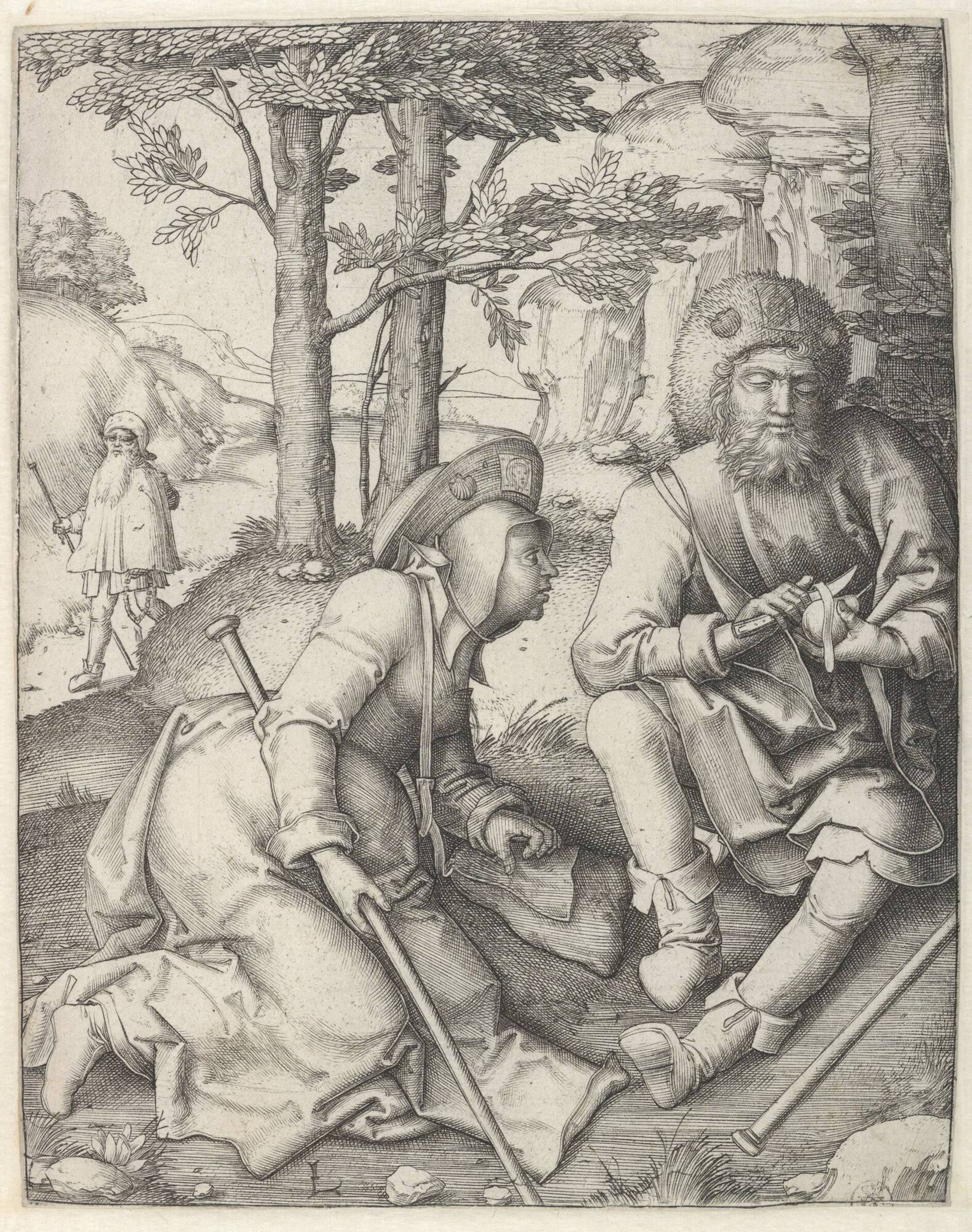 Lucas van Leyden. Resting Pilgrims. Engraving. 152 × 120 mm. Rotterdam, Museum Boijmans Van Beuningen (inv.no. BdH 9675 (PK)). Signed bottom left: monogram L. Bequeathed by Dr. J.C.J. Bierens de Haan in 1951.